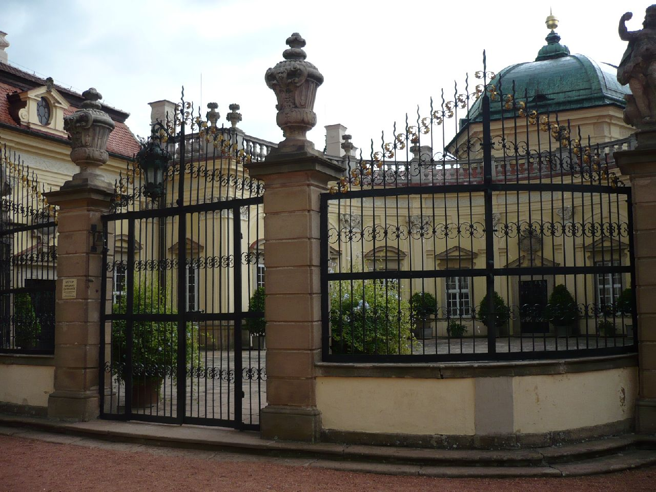 Castle Buchlovice - gate